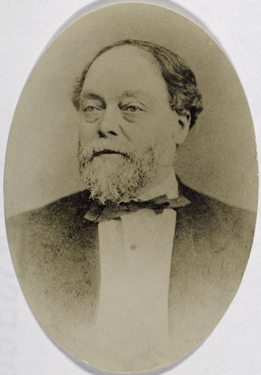 Duncan Curry, the first president of the New York Knickerbockers baseball club.